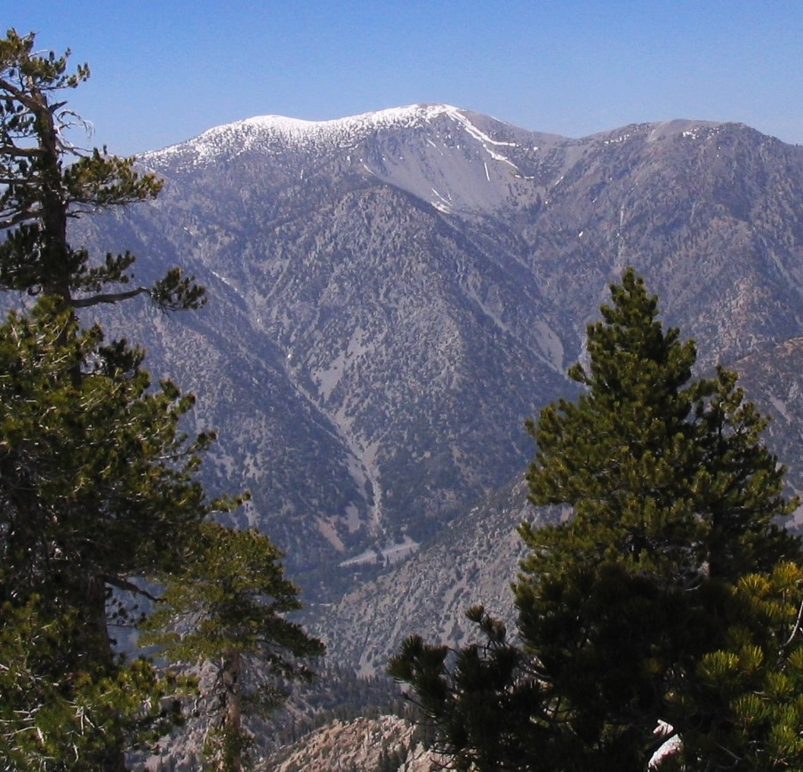 Mount San Antonio—Mount Baldy — in the San Gabriel Mountains, Angeles National Forest, Southern California. Viewed from the southeast, showing "Baldy Bowl" just below the 10,000'+ summit. West Baldy is on the left and Mount Harwood is on the right. The lowest point visible in this photograph is circa 5,000'.